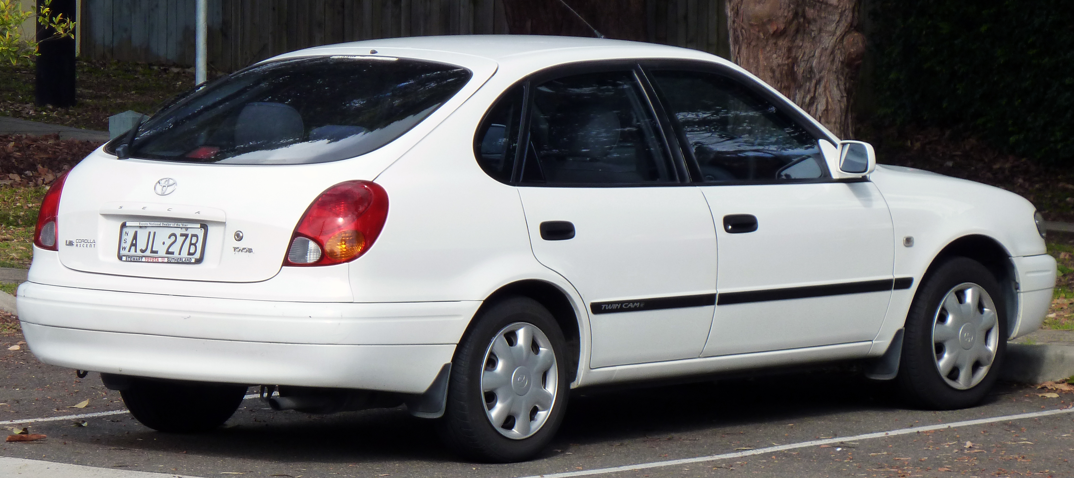 2000 Toyota Corolla (AE112R) Ascent Seca liftback. Photographed in Sylvania, New South Wales, Australia.